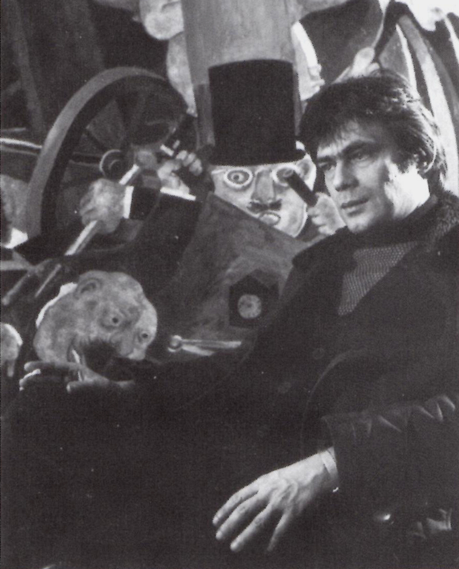 foto di Franz Borghese